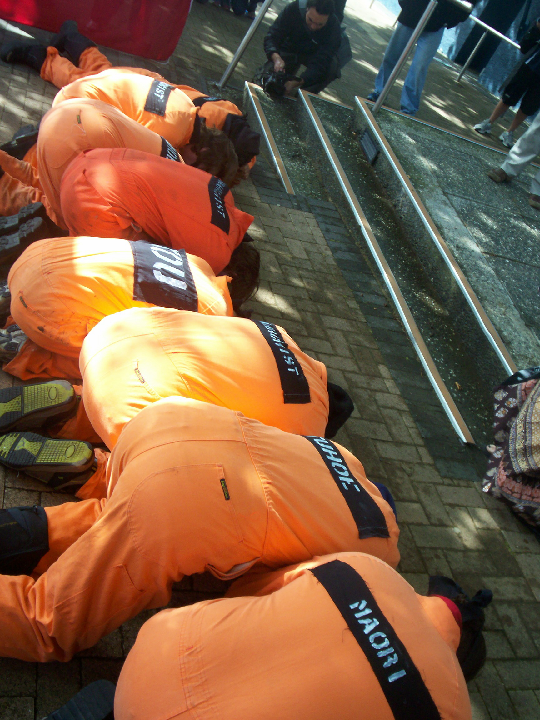 Protesters against the 2007 New Zealand police raids on November 3 at North Shore.